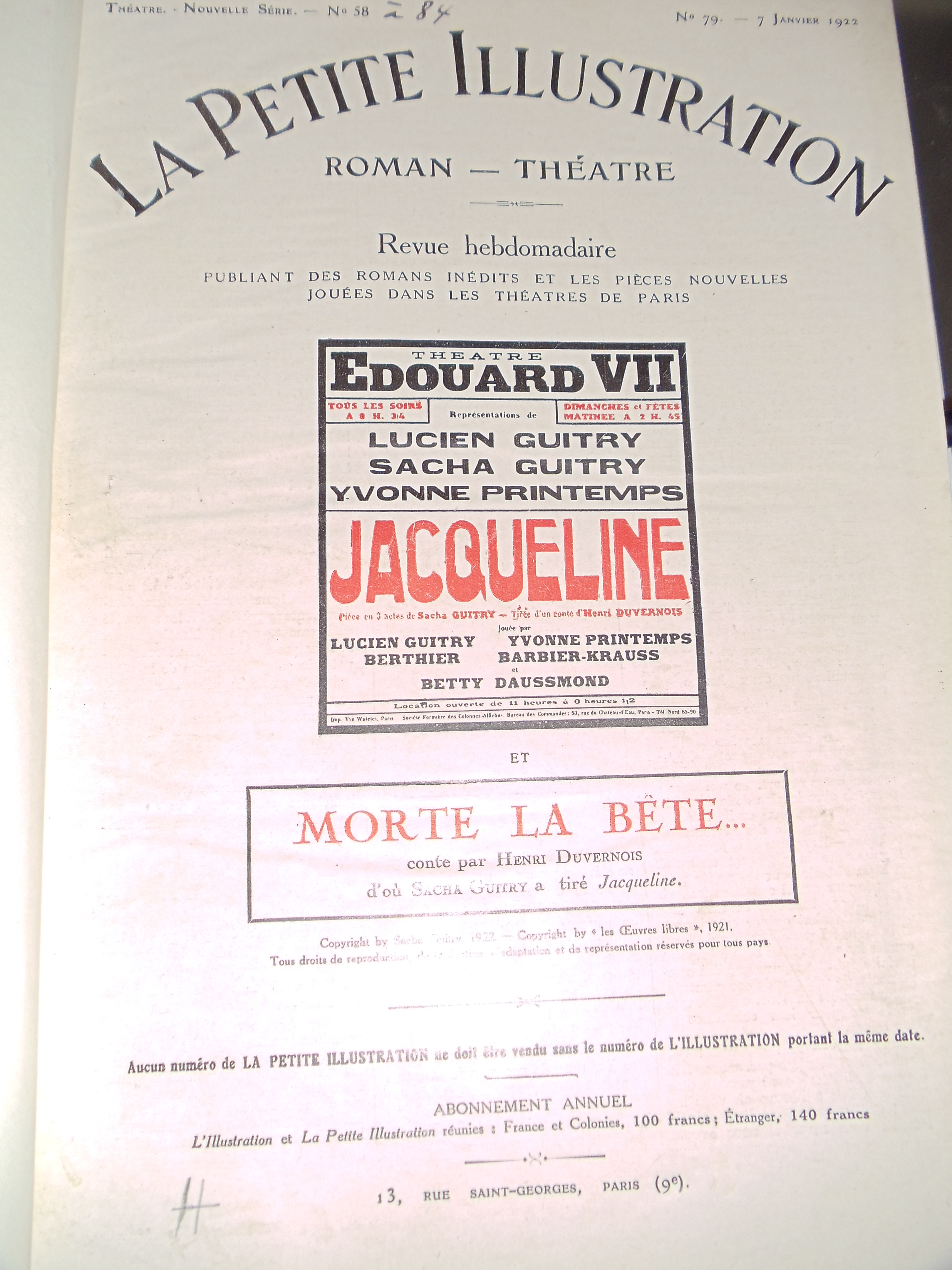 Photograph of La Petite Illustration, Issue 79, 7 January 1922.